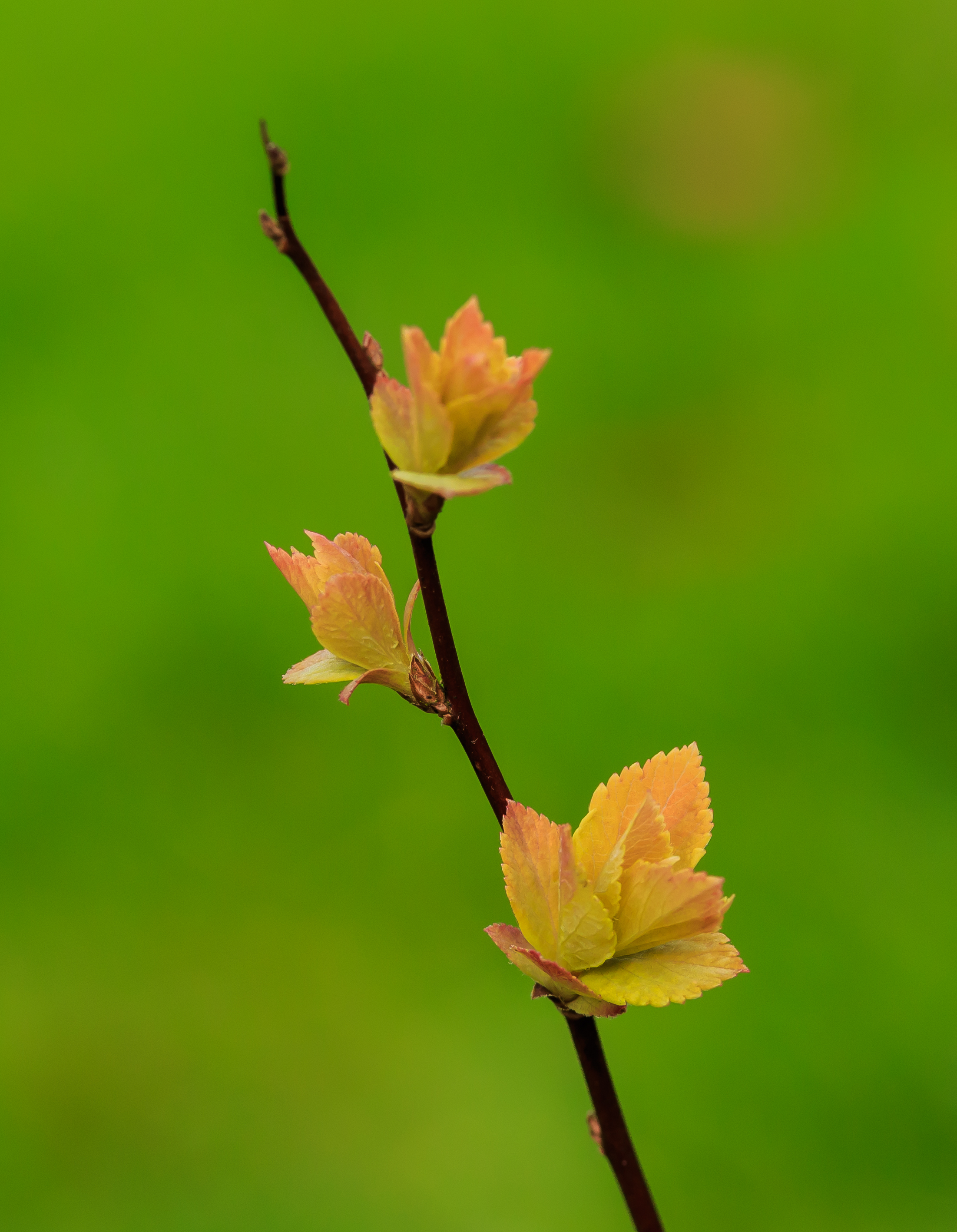 Spiraea japonica 'Gold Flame'. Wonderful anticipation marbled leaves.